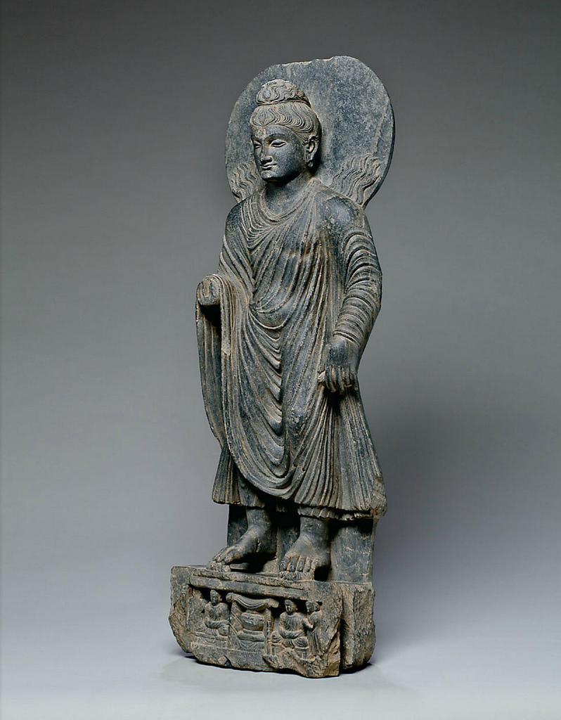 Buddha performing the Miracle of Sravasti - Gandhara, 2nd/3rd century AD A gray schist sculpture, of 80cm high, depicts Buddha standing on a pedestal with an altar, flanked by seated Buddhas and their attendants. In his left hand Buddha holds the hem of a full-length sanghati, the folds elegantly draped over the body, the face with bow-shaped mouth, almond-shaped eyes, and gently arching brows. The locks of wavy hair secured over the ushnisha and backed by a halo, with the flames miraculously emerging from this shoulders and water from his feet. This representation of Buddha with fire and water emanating from his body is rare, and refers to the first of the series of miracles he performed at Sravasti, a monastery town in ancient India, where he confronted his critics. The Kasyapas, leaders of India's six prevailing philosophical schools, invited Buddha to a contest of miraculous powers expecting they could demonstrate his inferiority. Buddha's miracles, which included, among others, allowing people to read each other's thoughts and spreading a cleansing light throughout the world, resulted in the conversion of the Kasyapas' ninety-thousand followers. The sculpture encapsulates this event, celebrating the virtue of the Buddha's teaching in contrast to the philosophies of the Vedic Kasyapas. (Source: Christie's E-Catalogue Indian and Southeast Asian Art 12.09.2012)